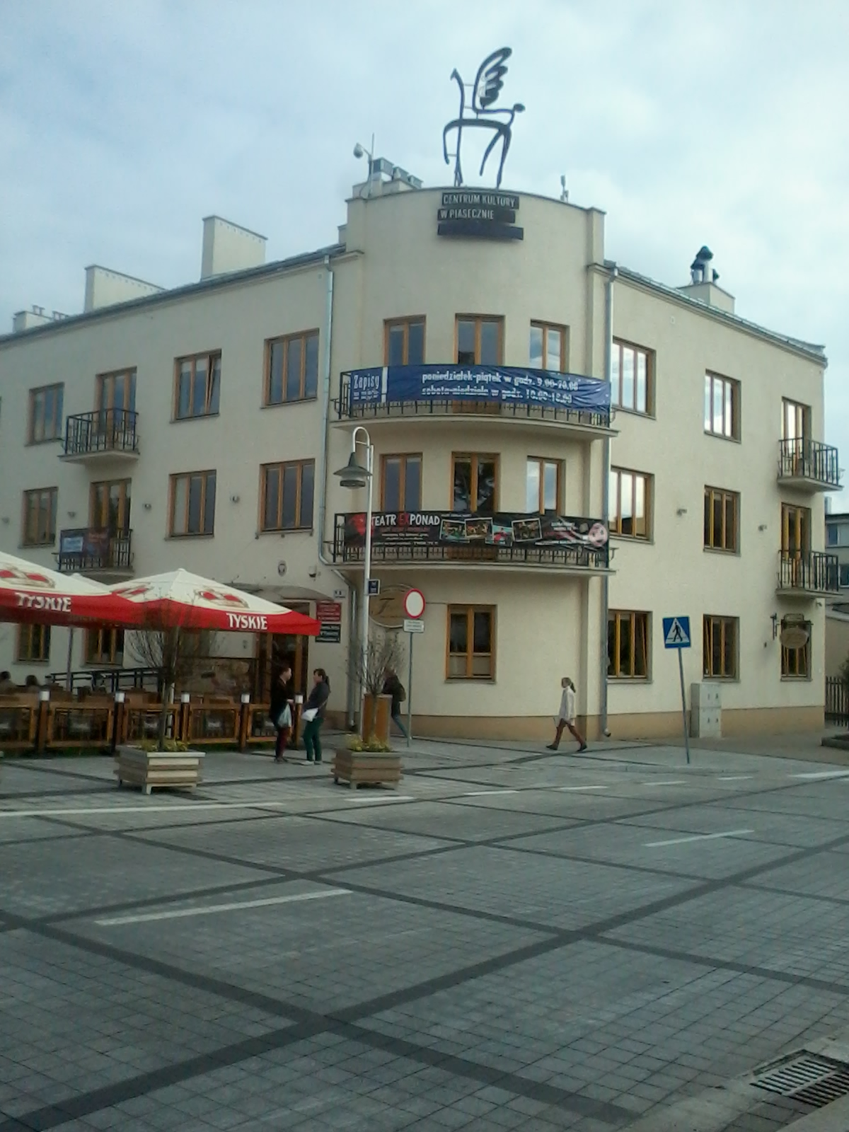 Piłsudski Square in Piaseczno